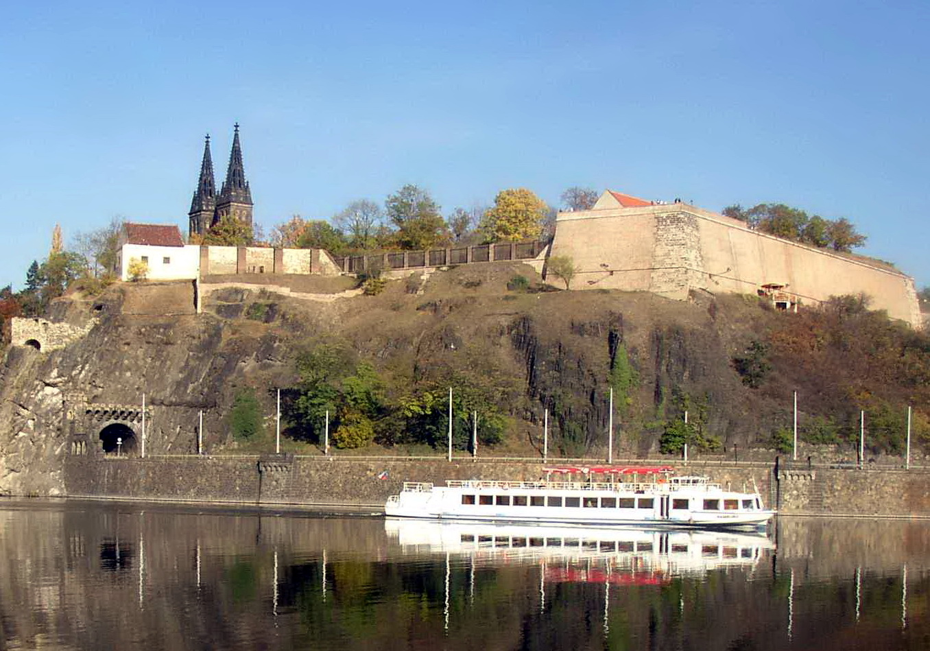 Vyšehrad Fortress in Prague as seen over the Vltava River. Photo taken by Miaow Miaow in October 2005, PD-self.